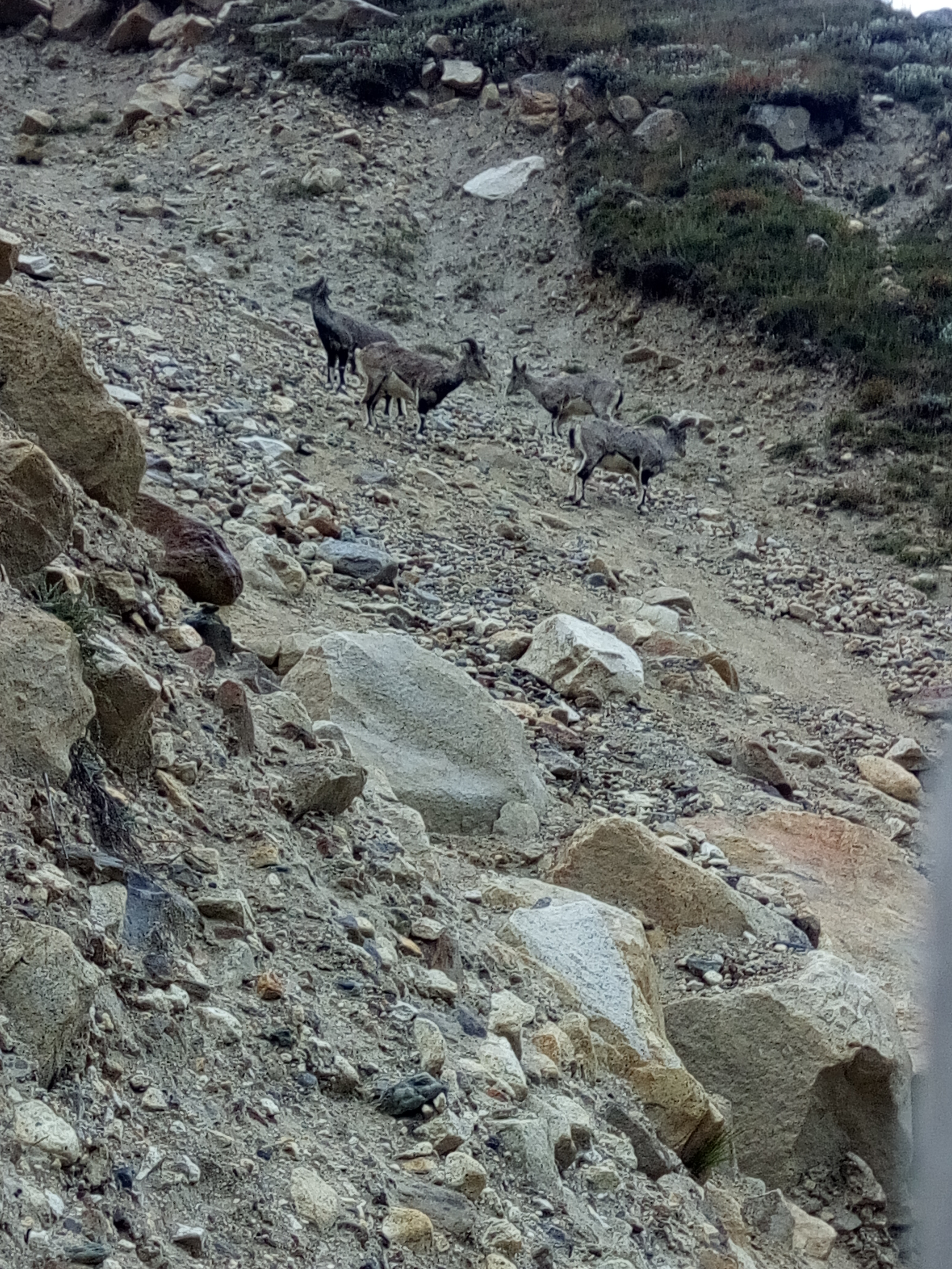 Blue sheep or bharal is a goat species at high altitude himalayas. Photo taken from bhojwasa -gomukh